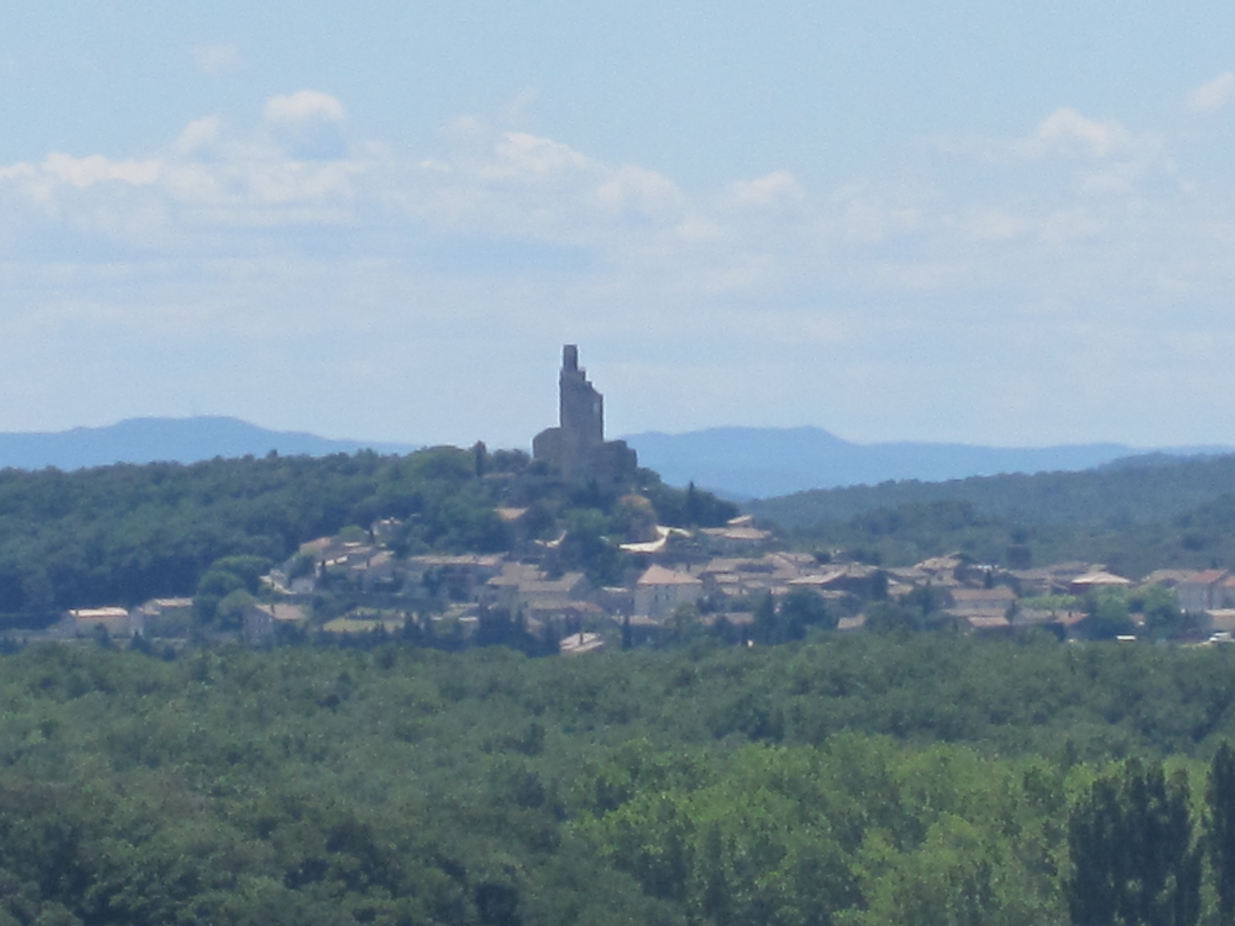 Chamaret as seen from Grignan